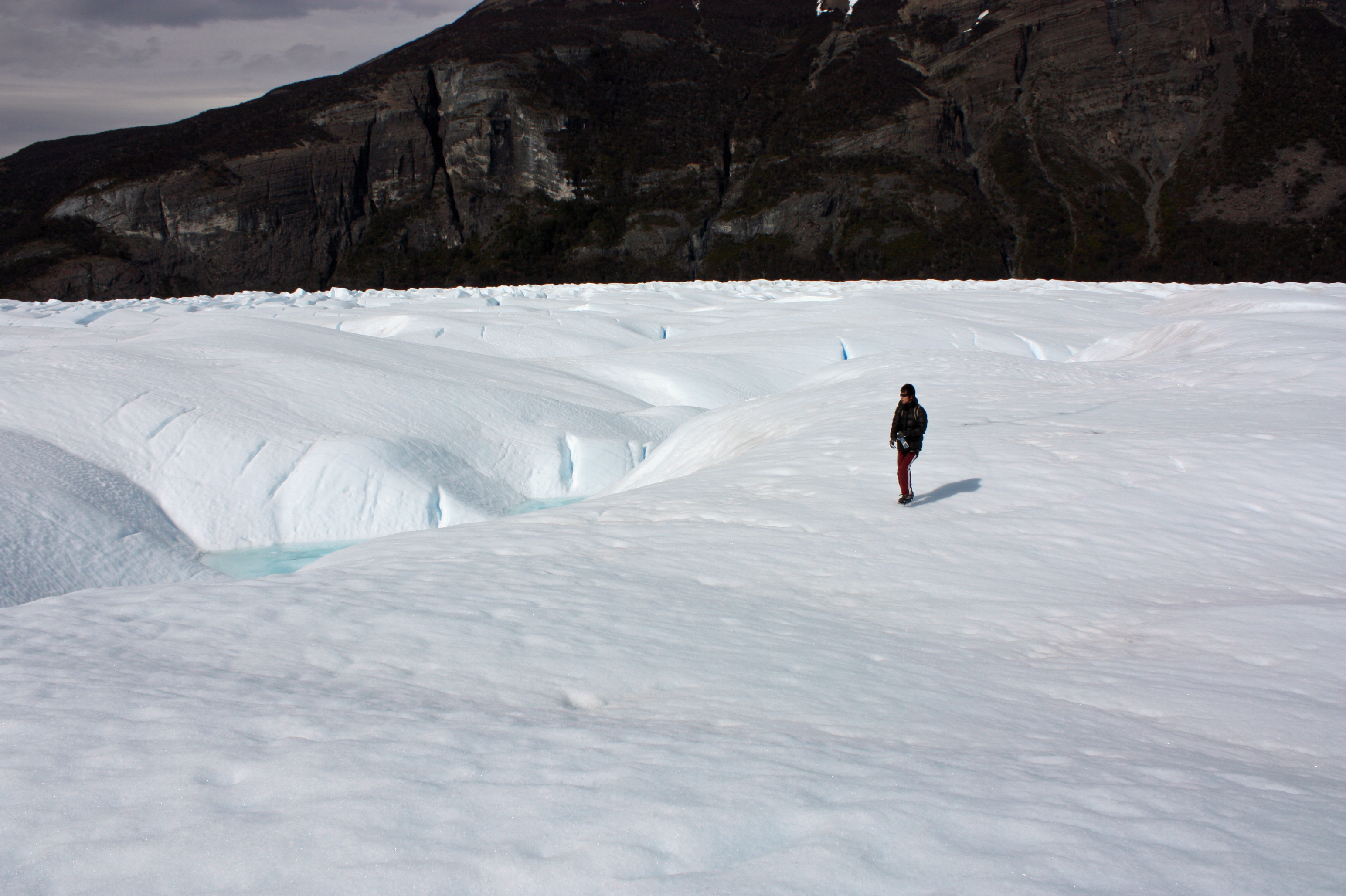 State of the Perito Moreno glacier trekking in September 2010.